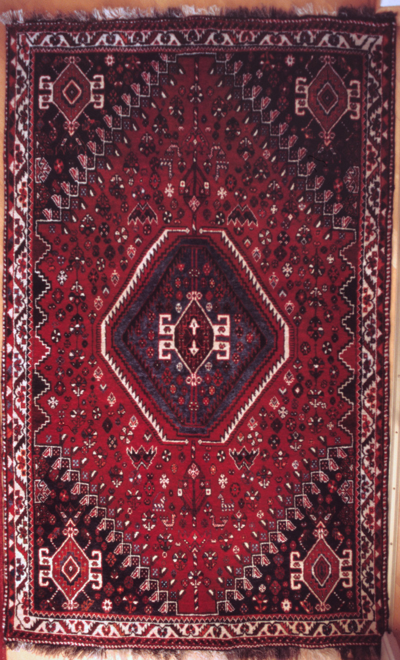 Kaschgai-Teppich / Rug made by Ghashgai people, Iran